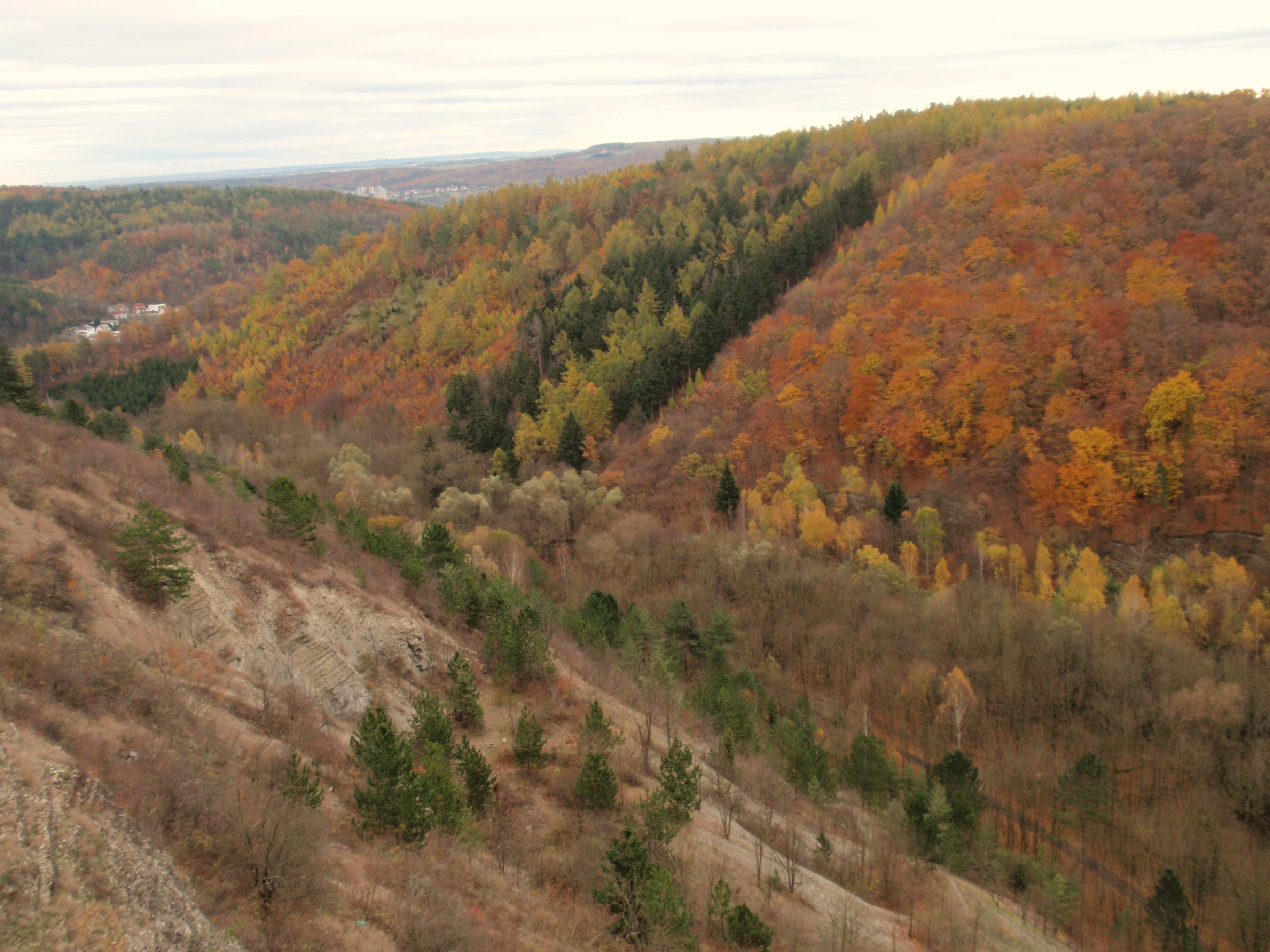 National natural monument Černé rokle in Prague and Prague-West District, Czech Republic